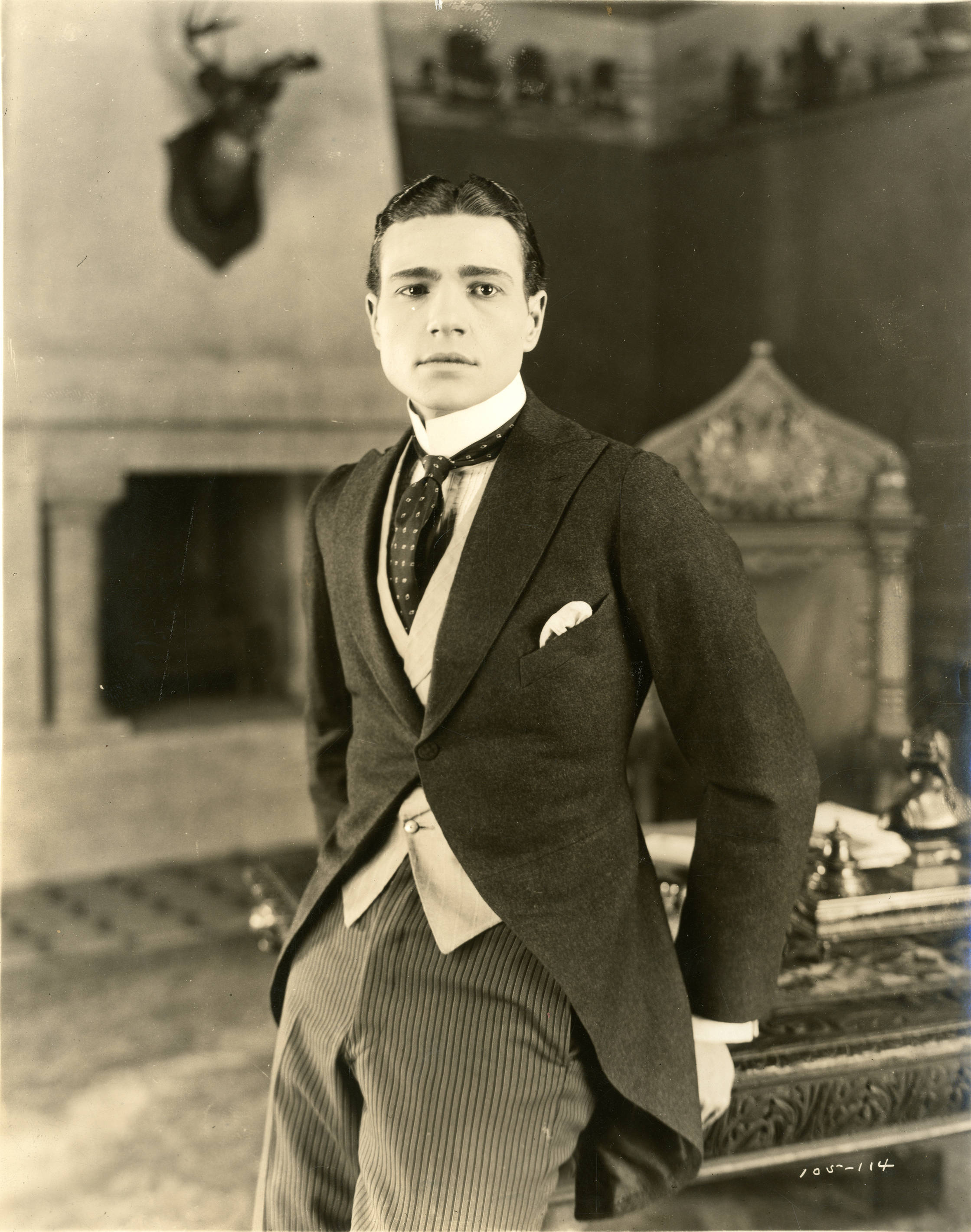 Silent film actor Charles Coghlan. Subjects: actors